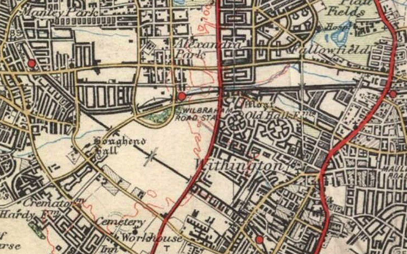 1937 OS map showing the location of Wilbraham Road railway station in Manchester, UK (closed 1958)